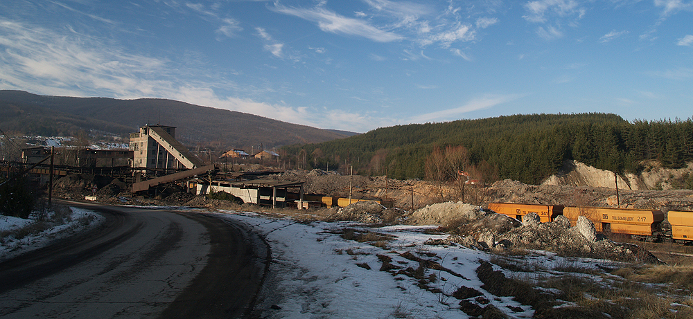 Chukurovo Coal Mine, Bulgaria